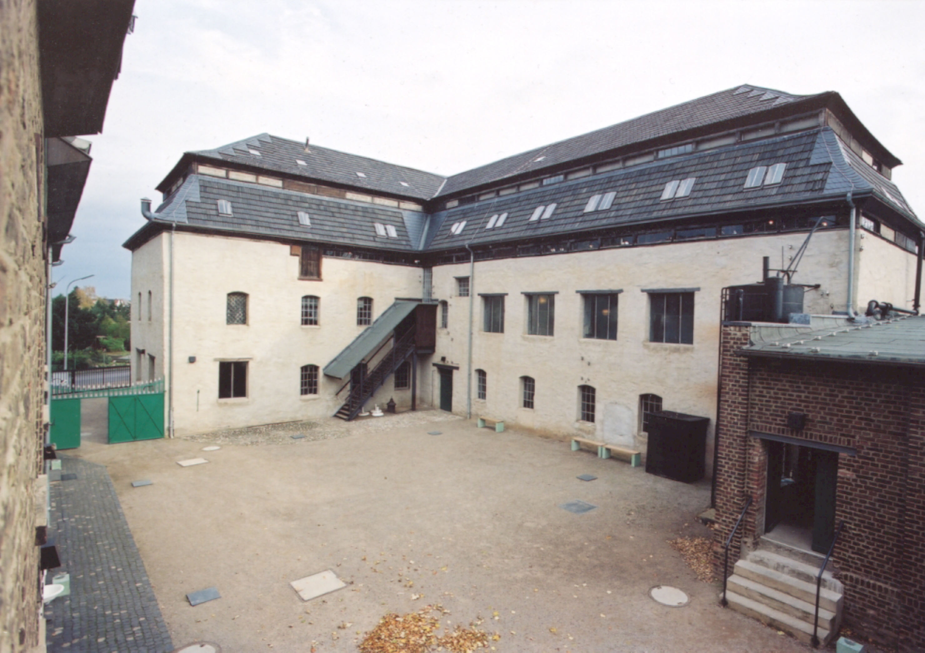 Main building (1801) and courtyard of the Mueller Cloth Mill - LVR Museum of Industry (formerly: Rheinisches Industriemuseum).